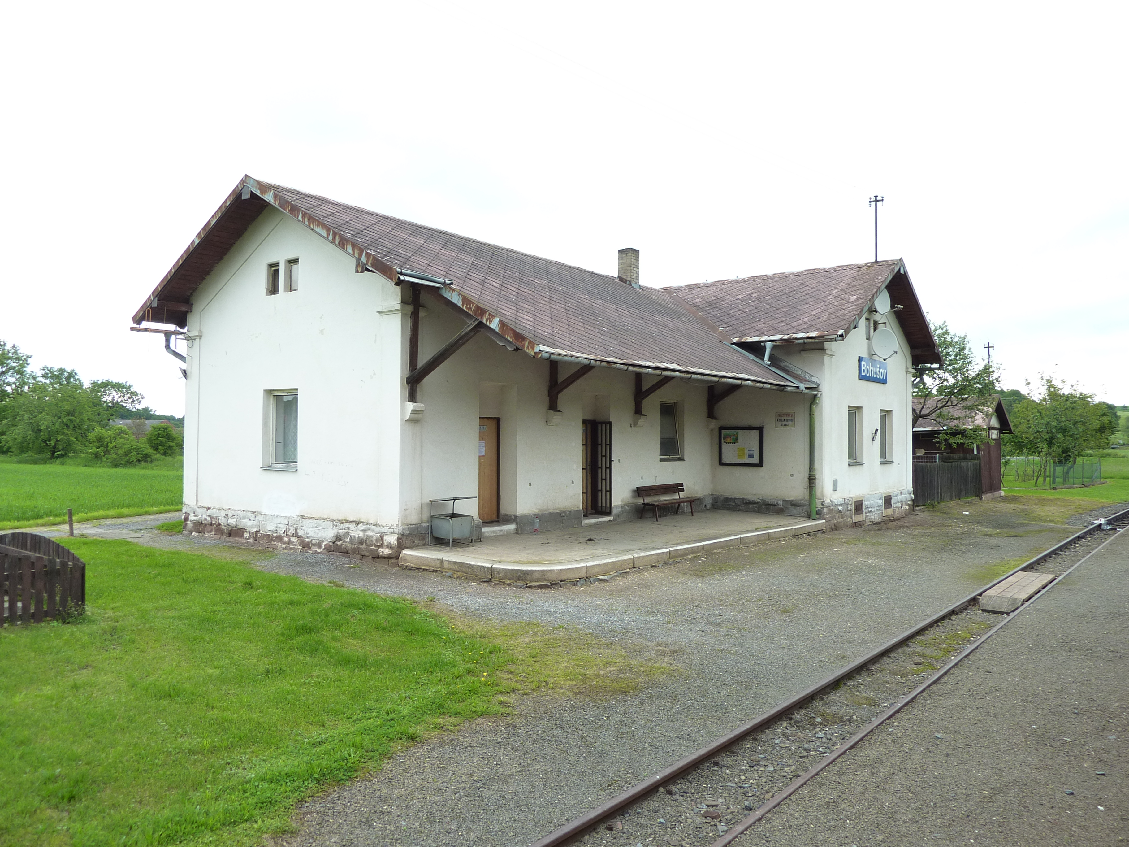 Railway station Bohušov, at Třemešná ve Slezsku - Osoblaha narrow gauge line in Czech Republic